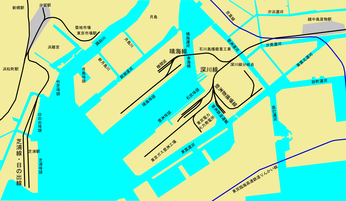 Route map of Tokyo port railway, which was disused in 1989.